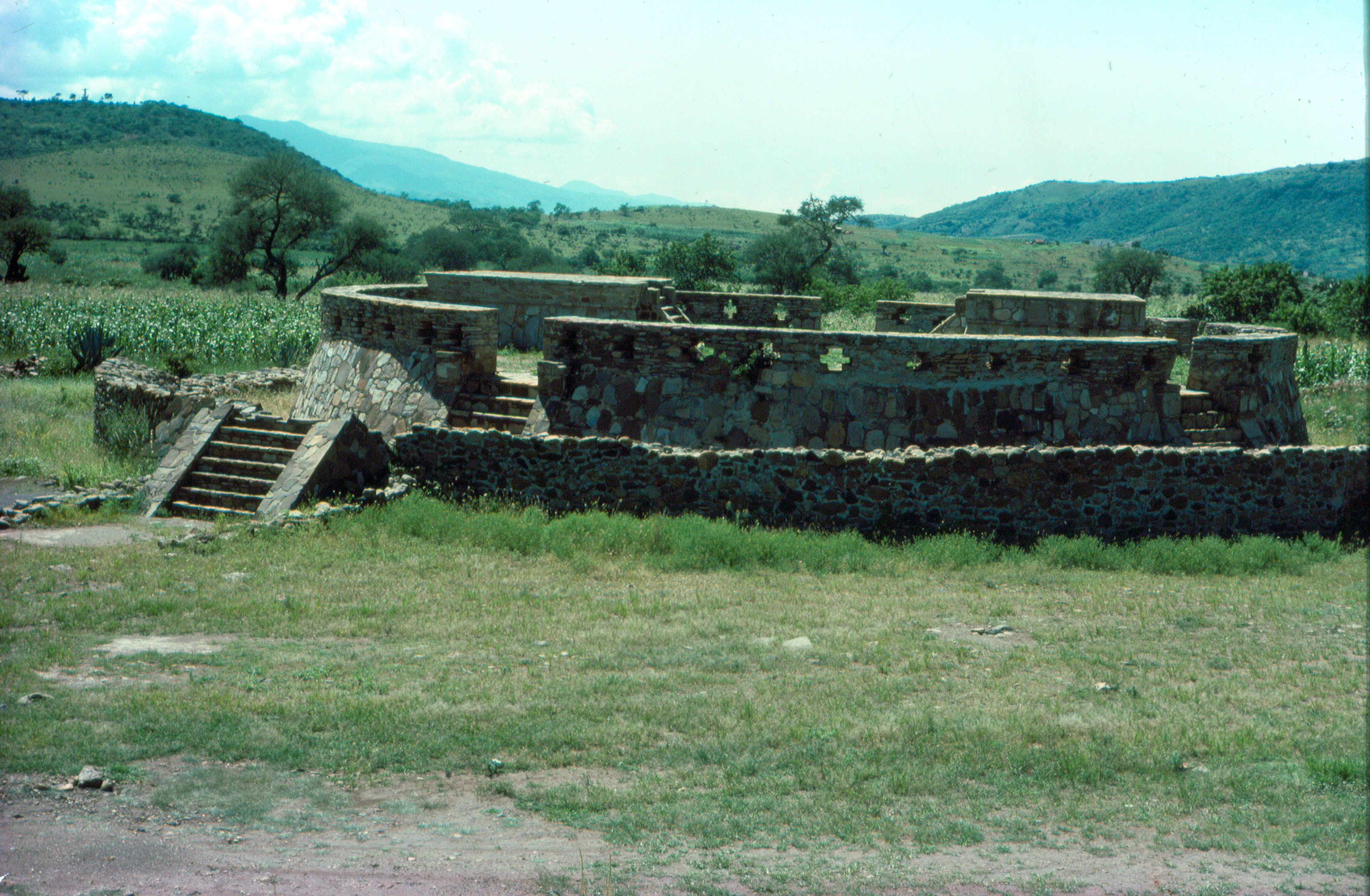 Ixtlan, Nayarit, Mexico: Round temple structure